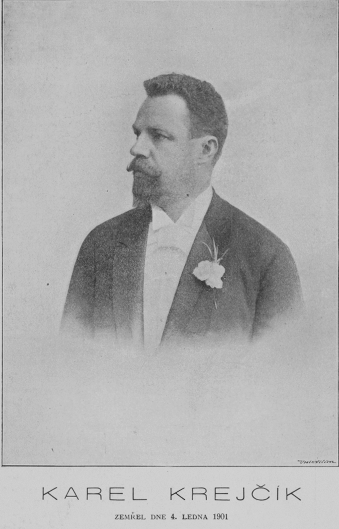 Portrait of Karel Krejčík (1857-1901), Czech painter, illustrator and cartoonist